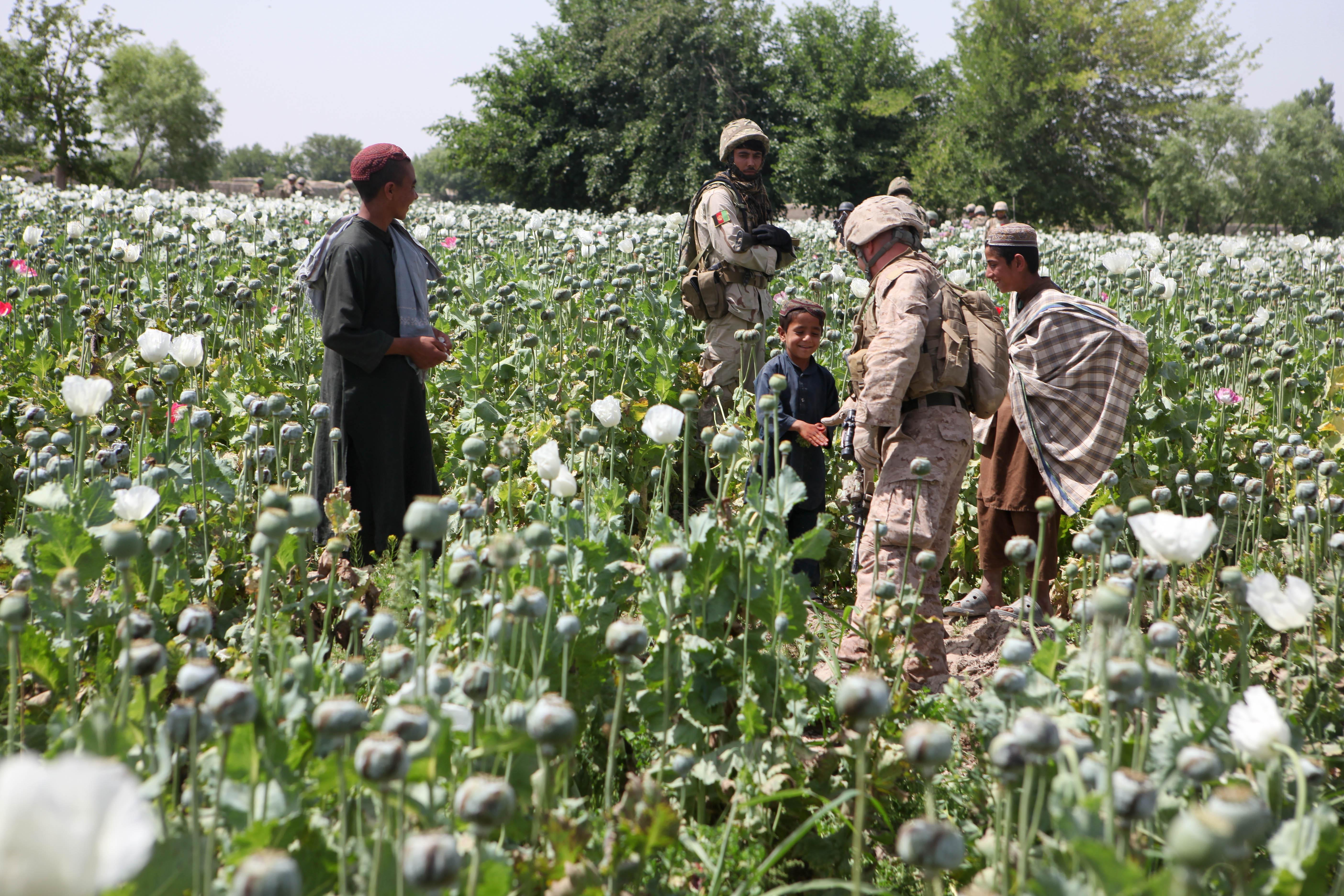 PATROL BASE SHARK, Helmand province, Islamic Republic of Afghanistan - A Marine with 3rd Battalion, 4th Marine Regiment, greets local children working in the farmlands near the base. The high-five exchanged is a symbol of the positive relationship the Marines have built with the local population.